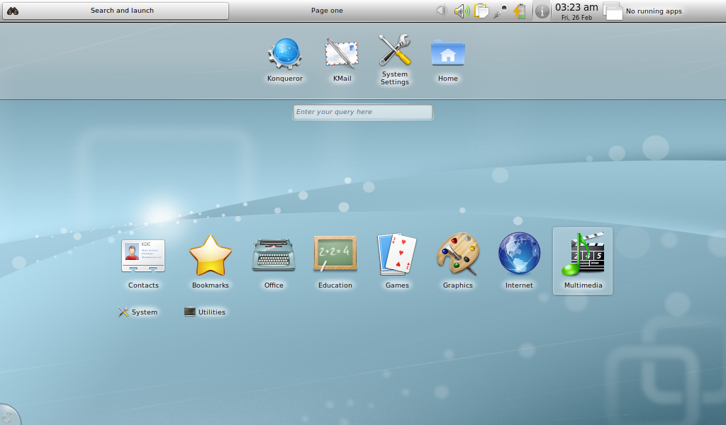 Screenshot of Kubuntu 10.04 Netbook Remix